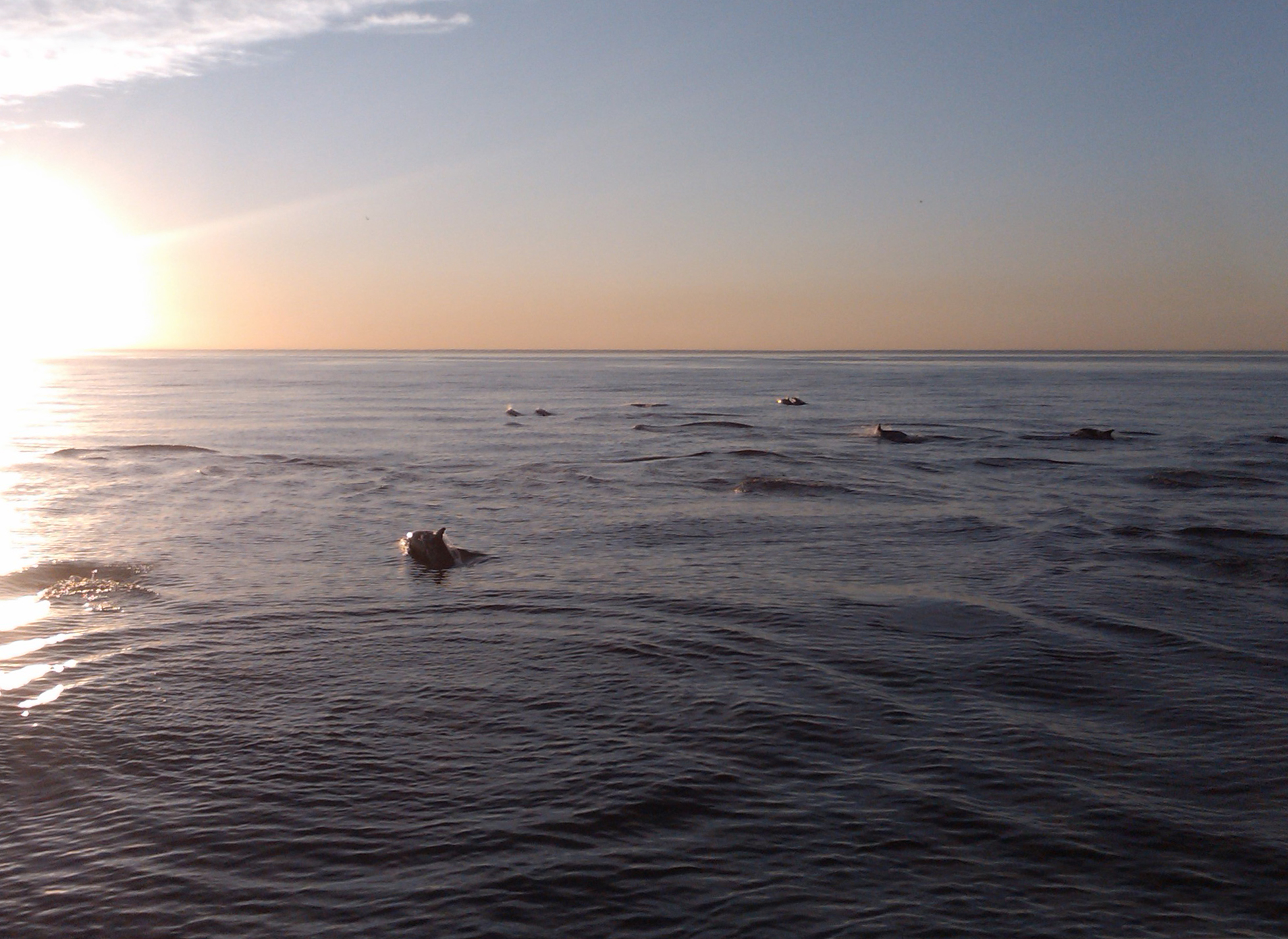 Image of dolphins on the Pacific Ocean on a boat trip.